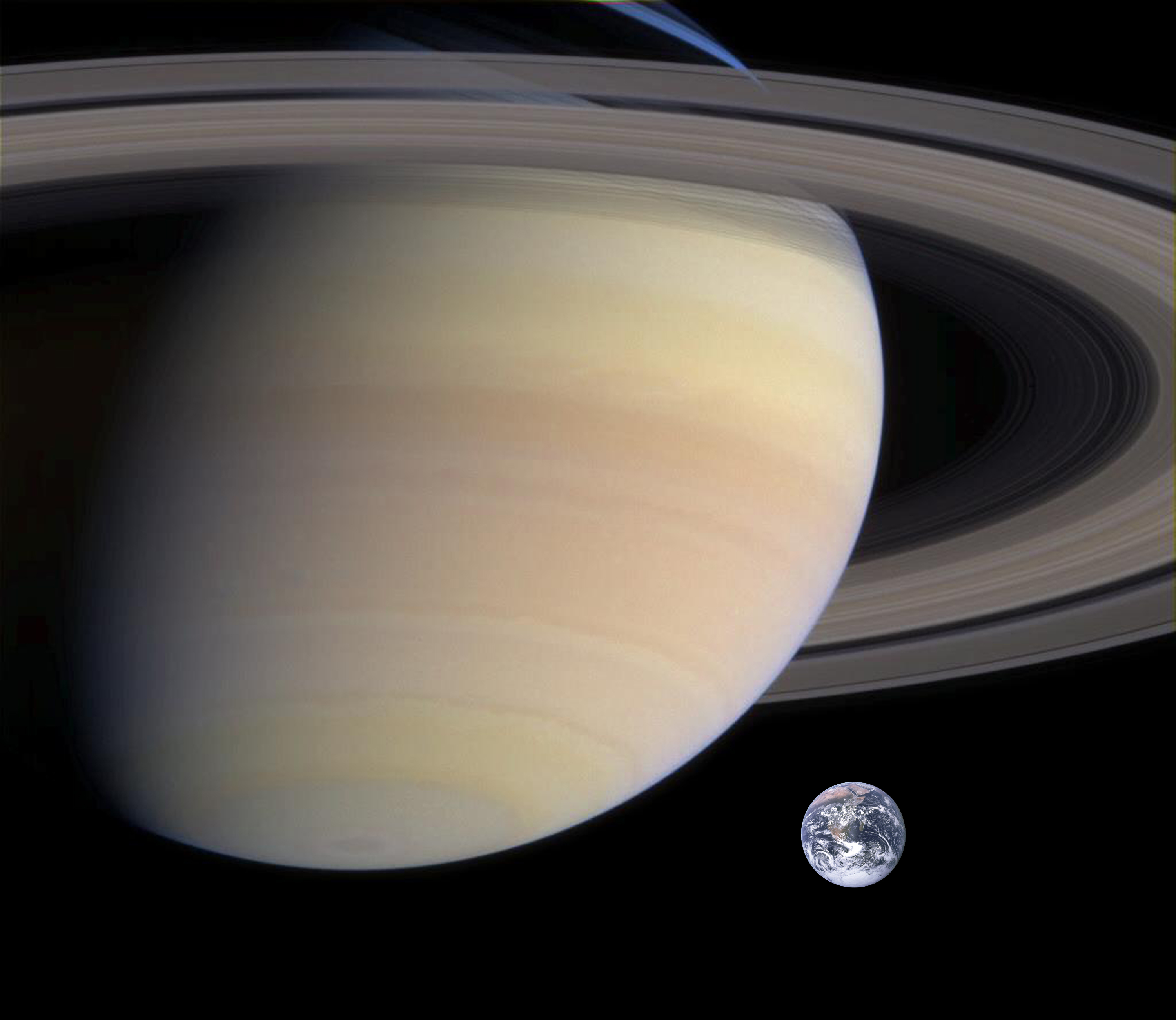 Rough comparison of sizes of Saturn and Earth.